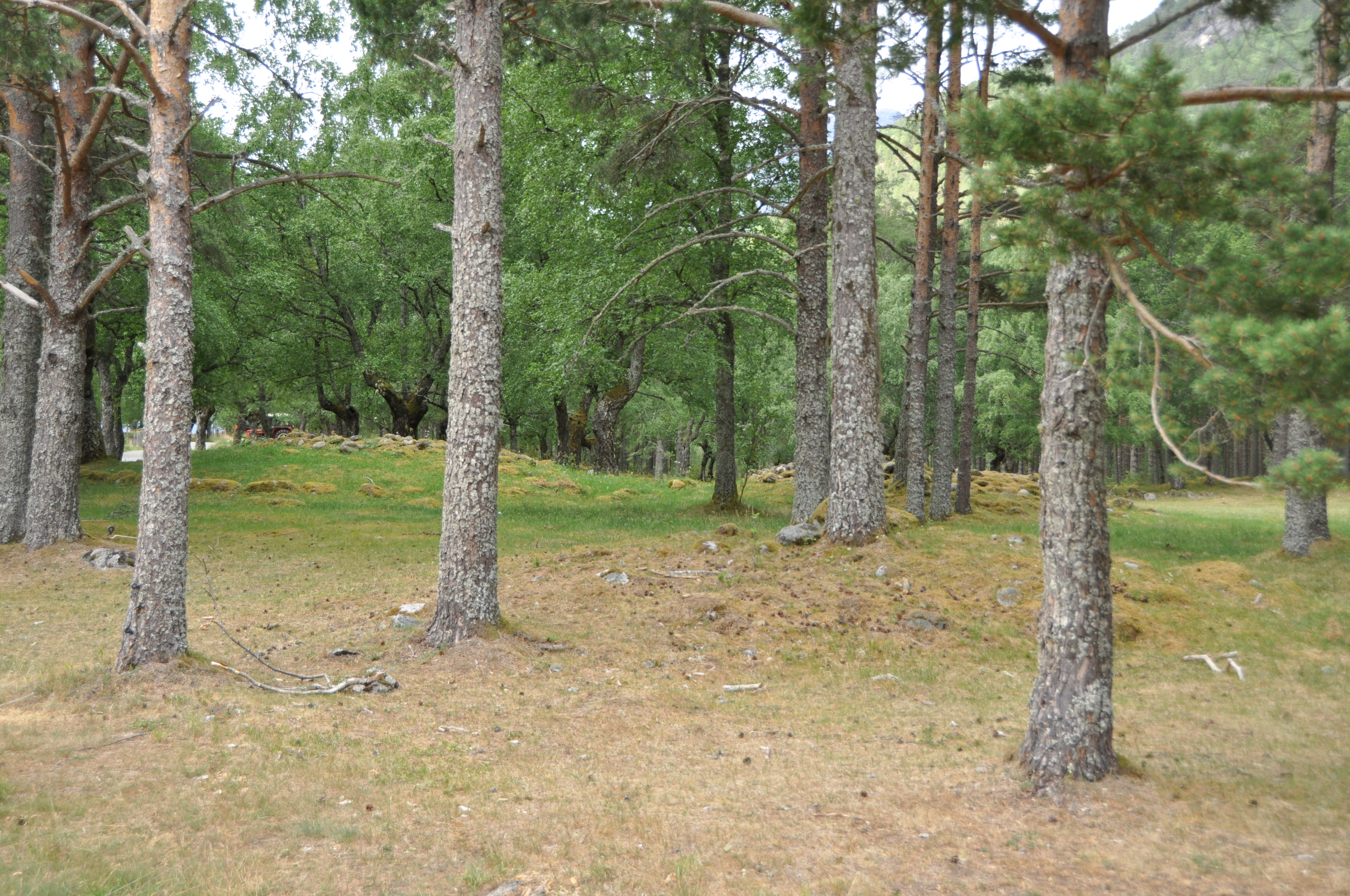 Burial mounds in the forest at the Hæreid plateau, Eidfjord.